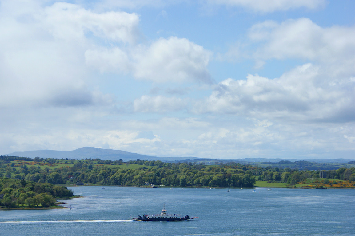 Strangford Lough View From Windmill Hill, Portaferry (with the ferry boat in view).